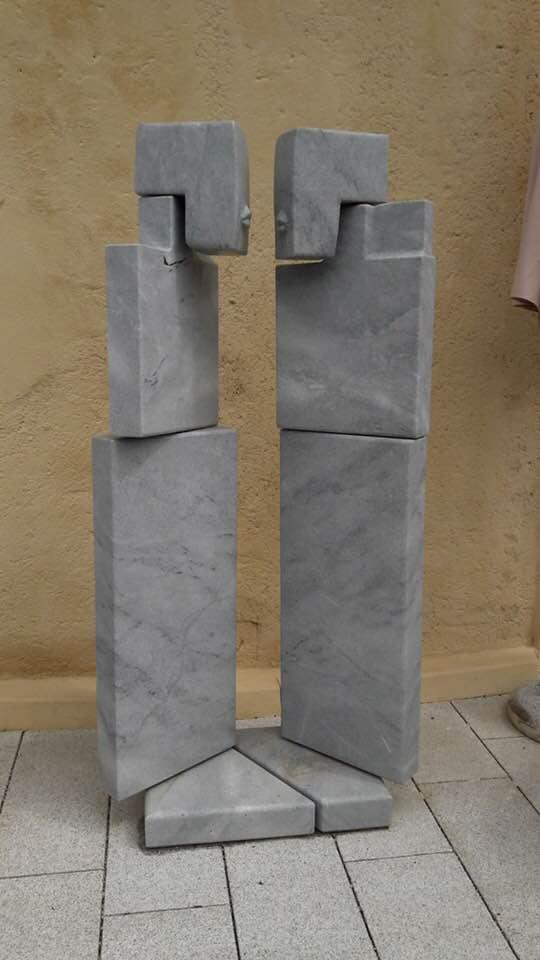 Sculpture by the Austrian sculptor Egon Straszer, presented at station 6 of the Project "Art cycling" in Millstatt (Austria)